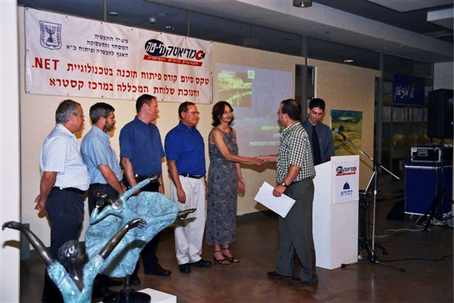 dot net first course in Israel graduation - Mediatech and Microsoft August 2003